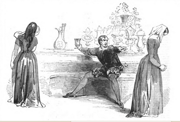 "SCENE FROM “THE CITY MADAM.” Our artist has here portrayed an effective scene from Massinger's play of "The City Madam," lately revived, and performed, with some alterations, at Sadler's Wells Theatre. It is the scene in which Luke, frantic with his vast accession of wealth, revenges himself upon Lady Frugal, her daughters, and servant Milliscent, by turning them out of doors."